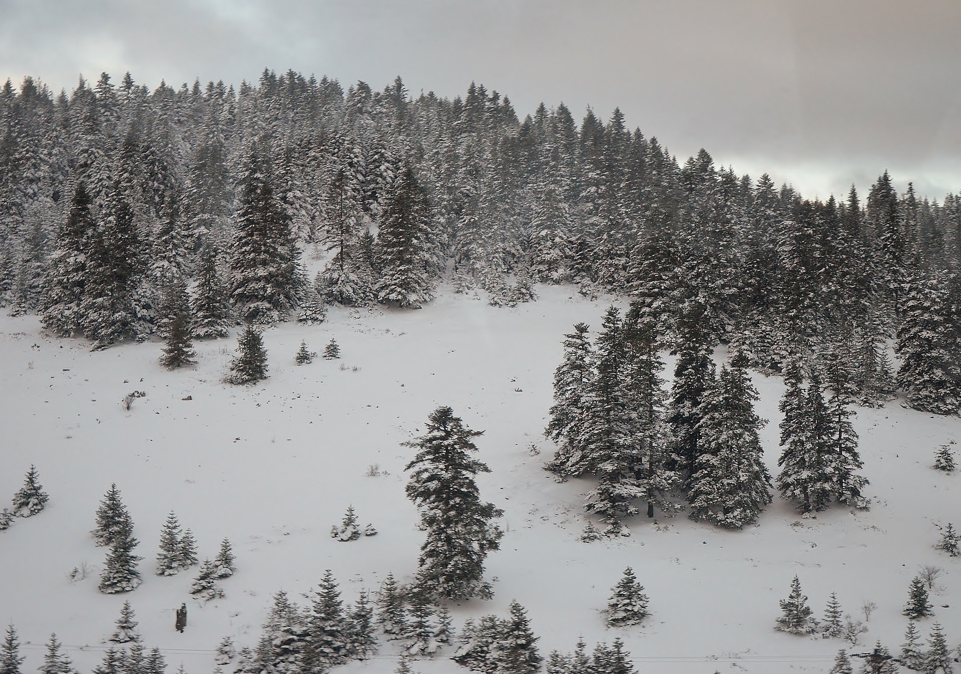 Köroğlu Mountains seen from the Motorway O-4 in April